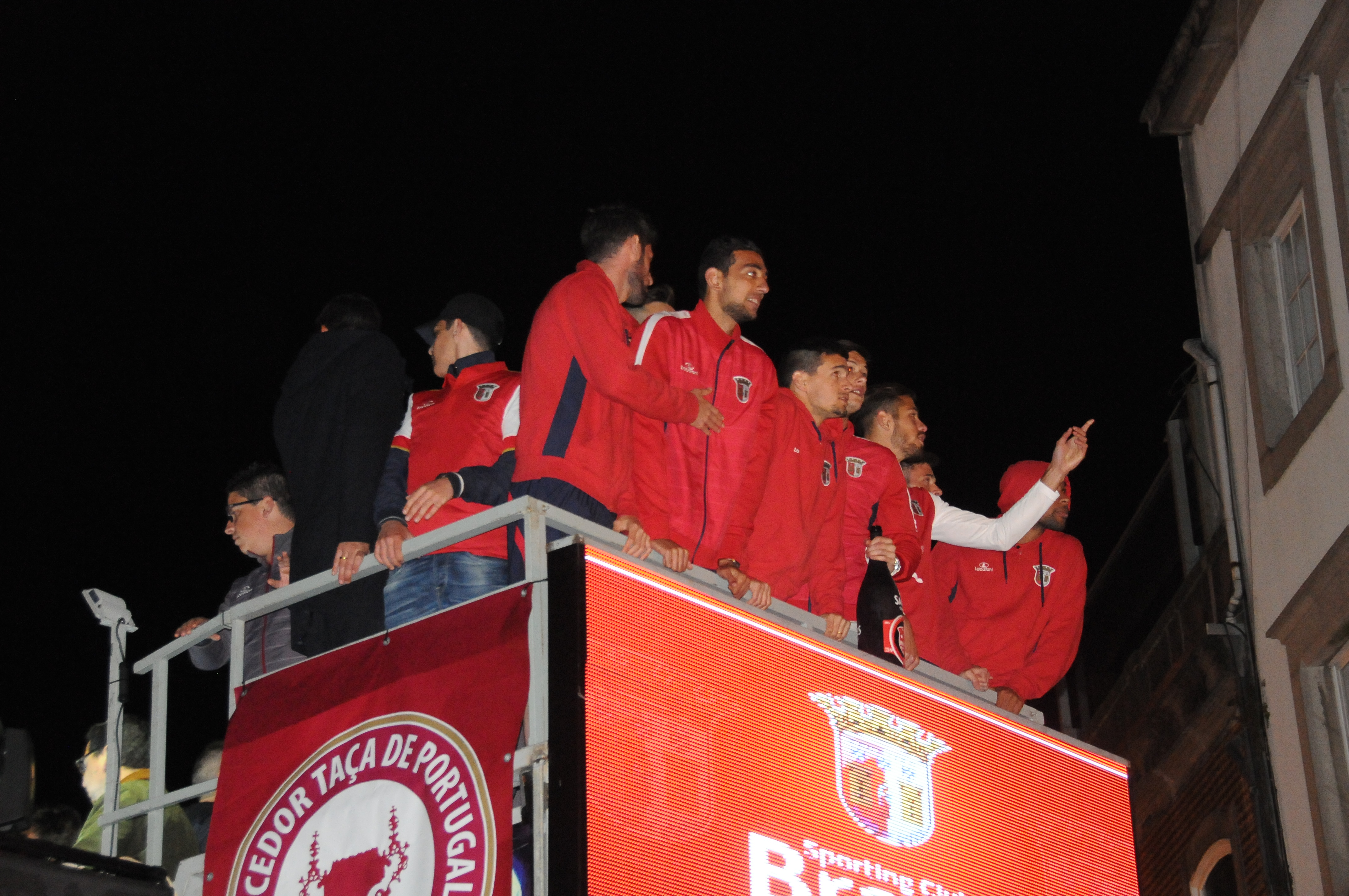 Sporting Clube de Braga in 2016 in Braga